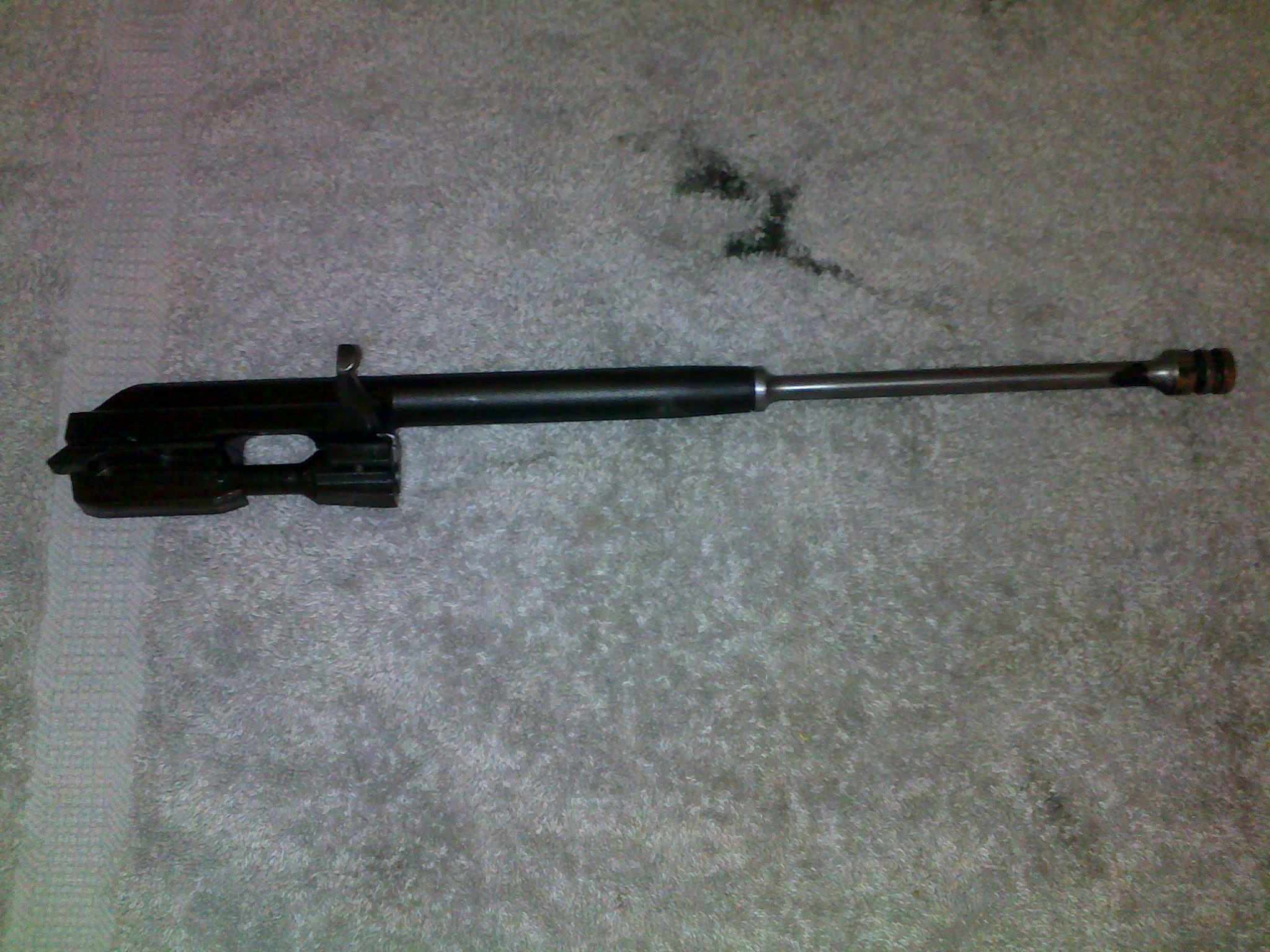 long stroke gas piston Zeos386sx (talk) 01:24, 13 February 2011 (UTC)